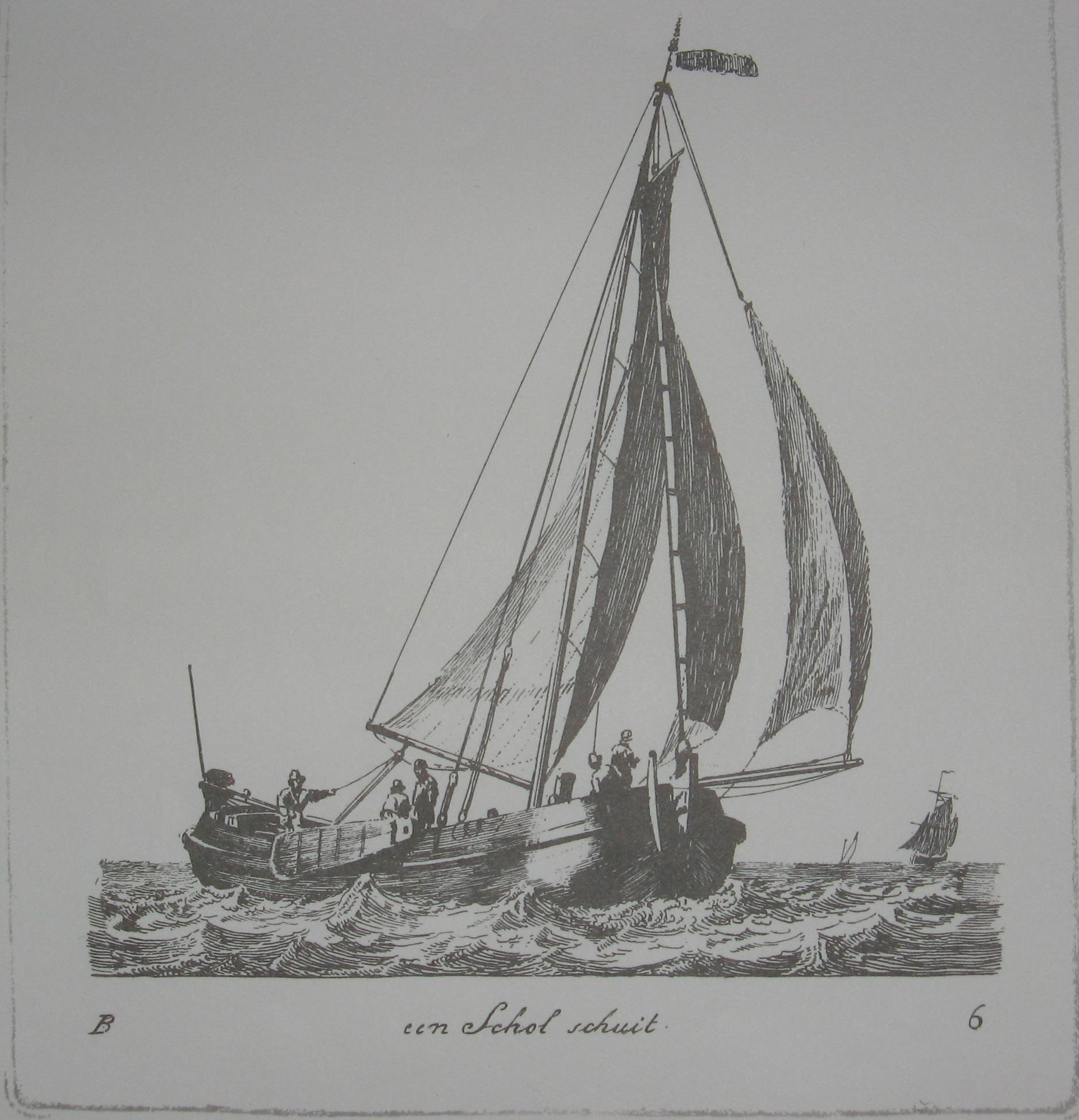 een Schol Schuit: Dutch barge, XVII cent. (repr. 1998)